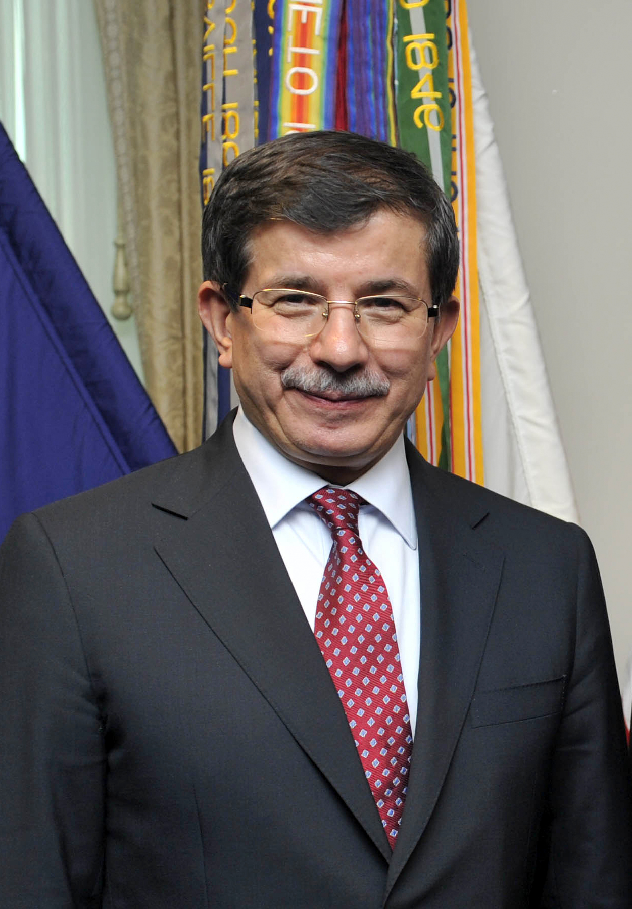 Turkish Foreign Ministry, Ahmet Davutoğlu.